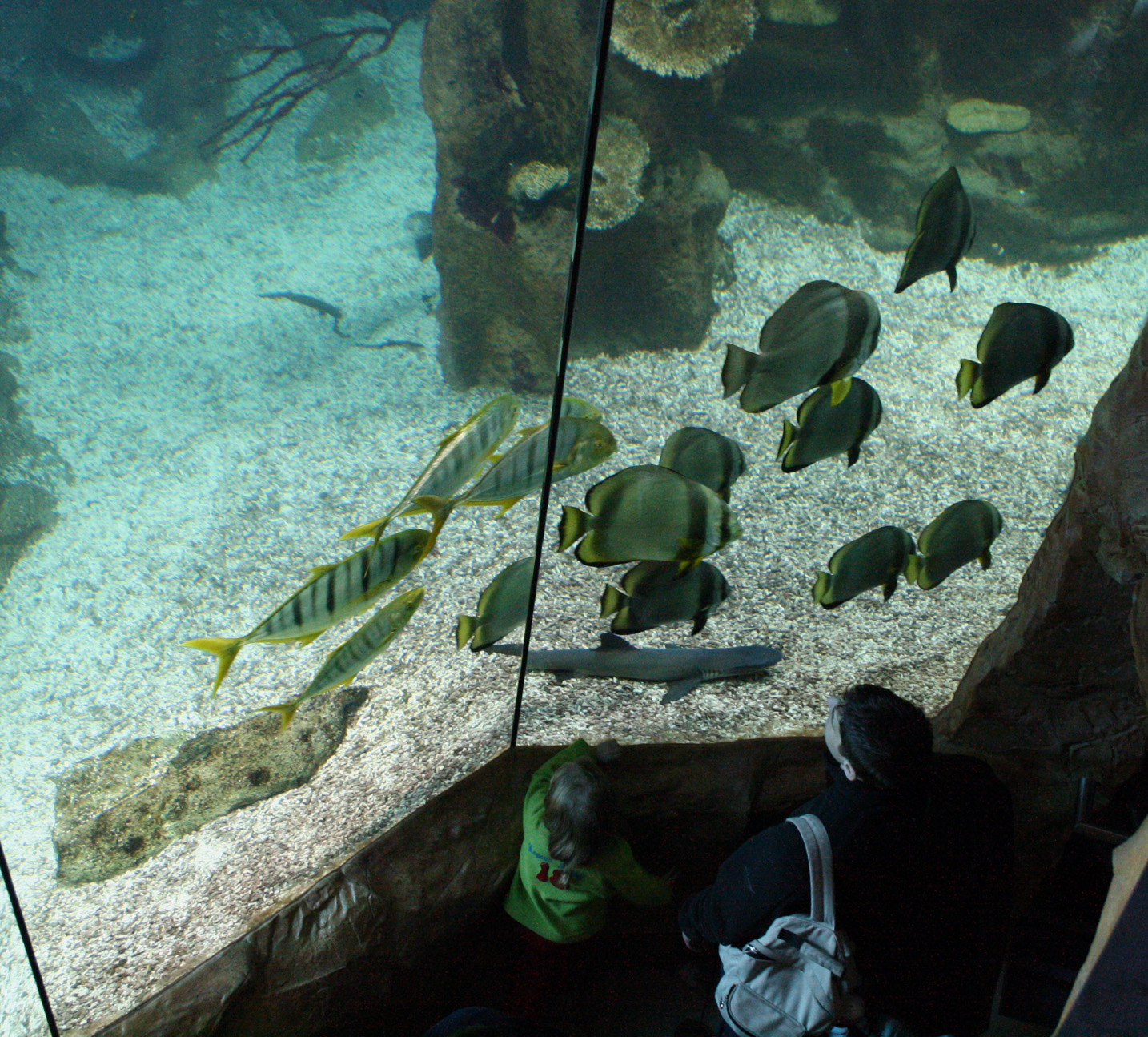 Large salt-water aquarium at the 'Haus des Meeres' in Vienna